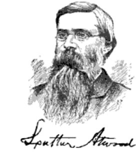 Luther Atwood 1868 sketch